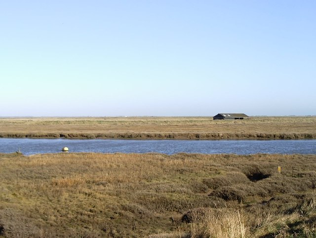 Rushley Island. Taken from the sea wall near Oxenham Farm looking north towards the island across Havengore Creek.